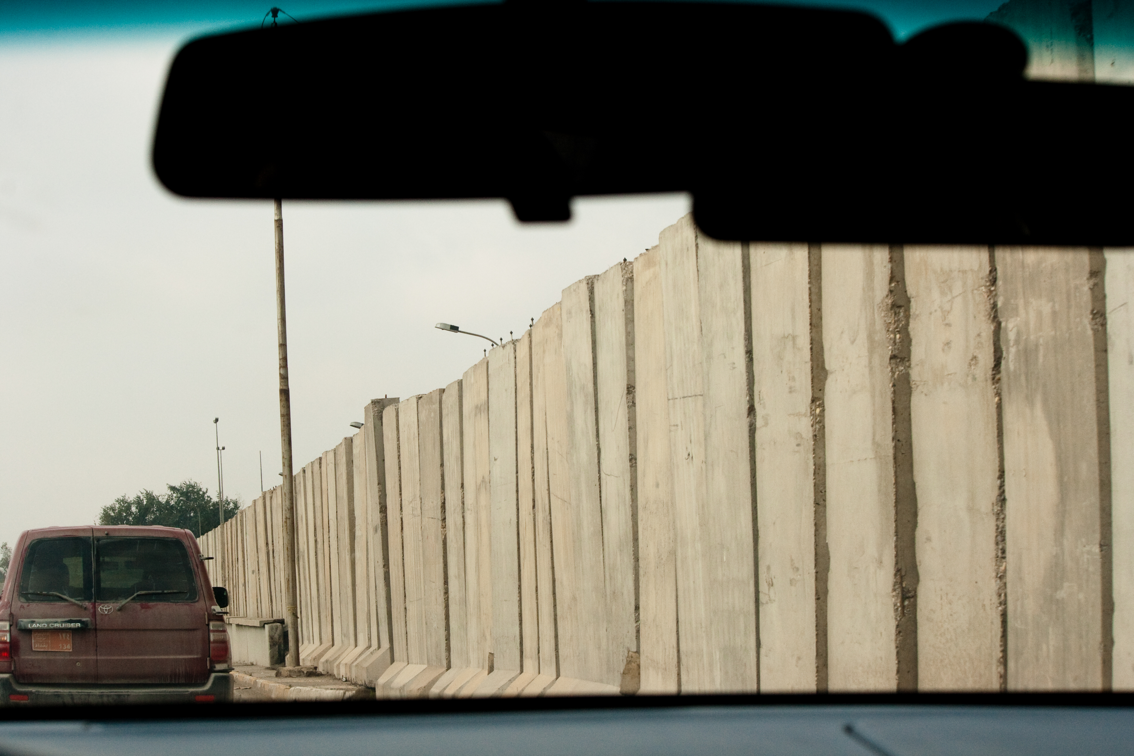 The Iraqi capital is a city full of walls. Photo by Omar Chatriwala